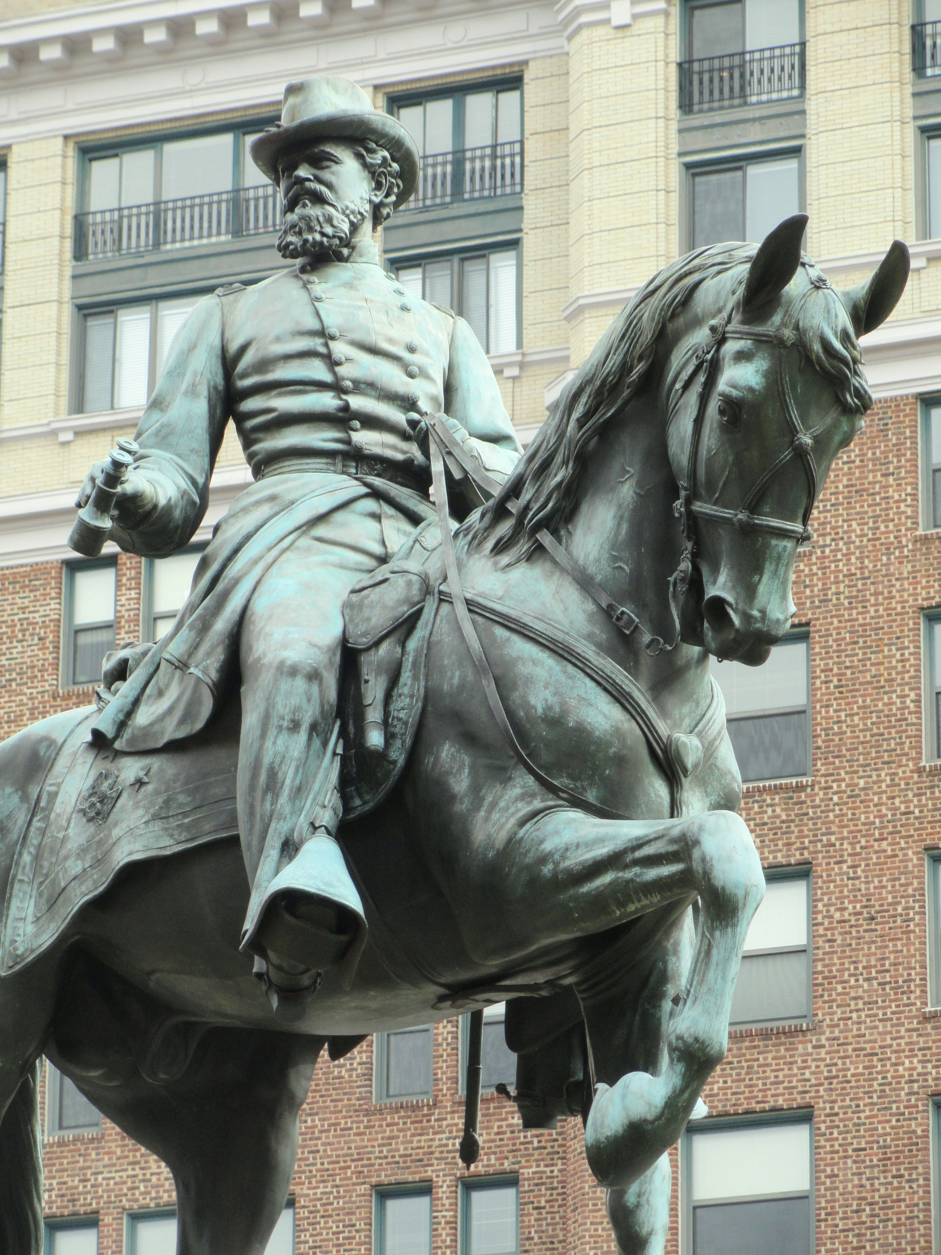 Equestrian statue of General James B. McPherson by Louis Rebisso (1837-1899), located in McPherson Square, Washington, DC, USA. This artwork is now in the public domain because the artist died more than 70 years ago.